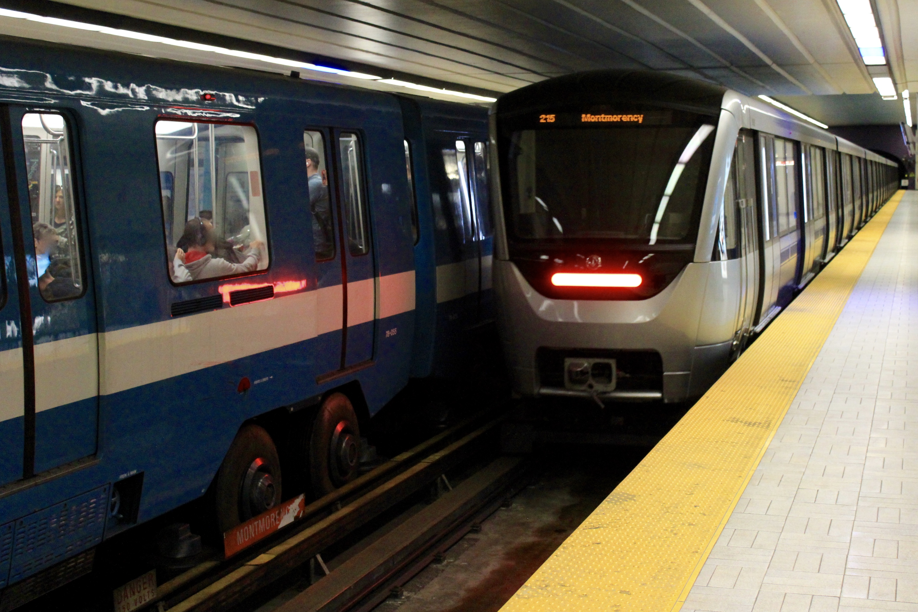 MPM-10 Azur train next to a MR-73 leaving the station.